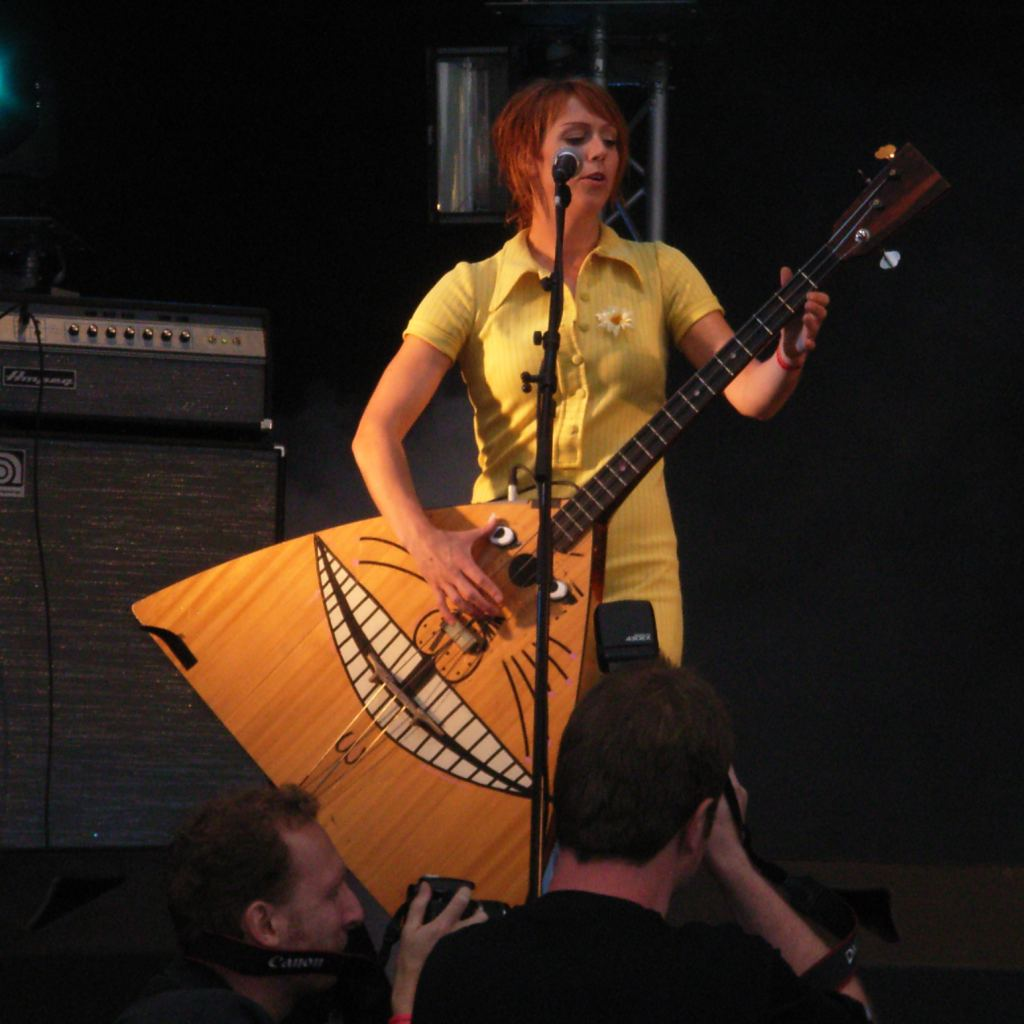 Turid Jørgensen from Katzenjammer, live at Oberhausen, Germany, 8. August 2009